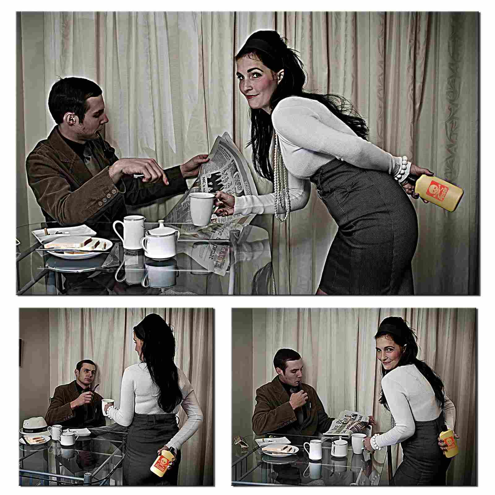 Photograph taken from Andre Pienaar's G3 portfolio. See more at Poisonous Morning by Andre Pienaar using G3 camera This was one of my first images for my portfolio and features a few of my close friends as models, MAs and lighting assistants. The idea was to tell a story in three images without changing composition. The shoot was a playful take on the stereotypical 60s household with a quiet disinterested male controlling a submissive housewife. In our shoot, we riffed on the sexist commercials of the time, where the housewife surprises the man with a treat at breakfast time but changed the surprise for poison rather than a new brand of coffee. The model looking directly at the camera purposefully breaks the fourth wall and makes the viewer part of the joke. Photographer: Andre Pienaar Camera: G3